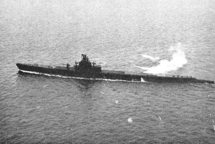 USS_Hoe; Hoe (SS-258) underway, 16 February 1943. US Navy photo. Images from "U.S. Warships of World War Two". Courtesy of Mike Green.